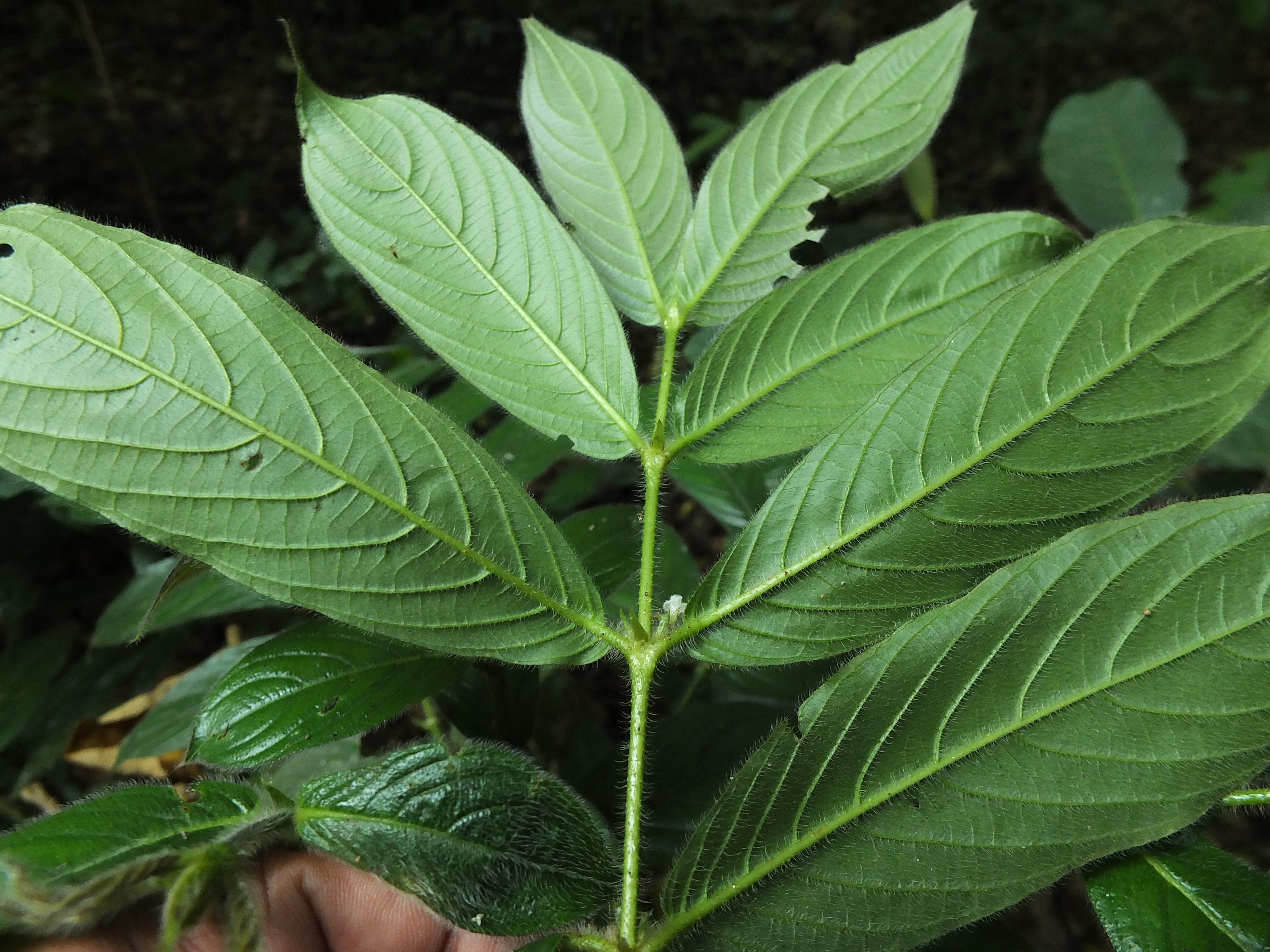 Understory tree in medium elevation evergreen forest